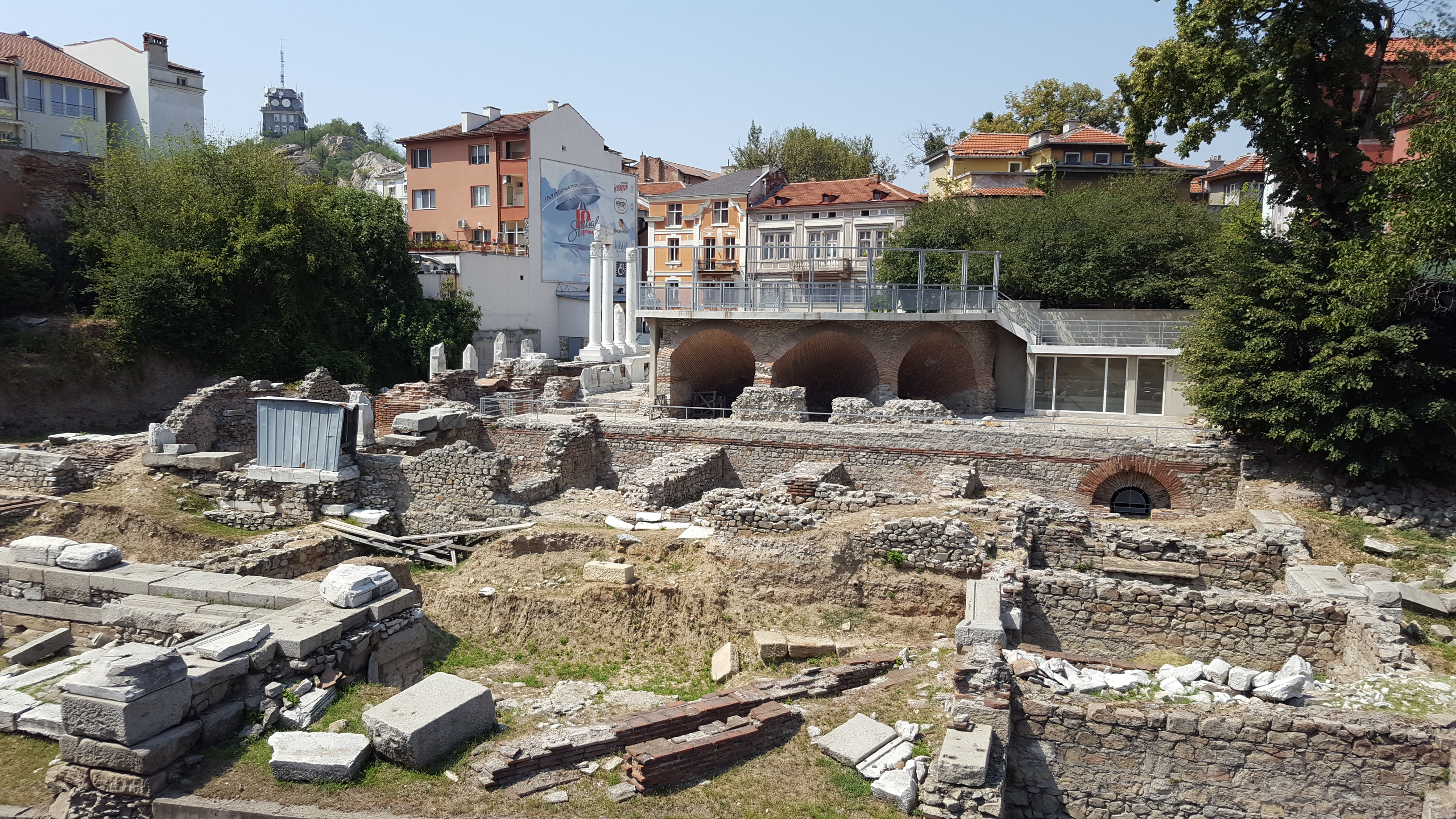 The northern part of the ancient forum of Plovdiv with the ruins of the Odeon and the City Library.